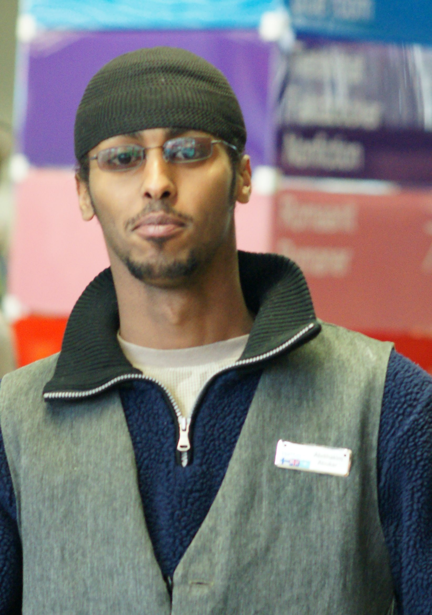 A young Somali man.